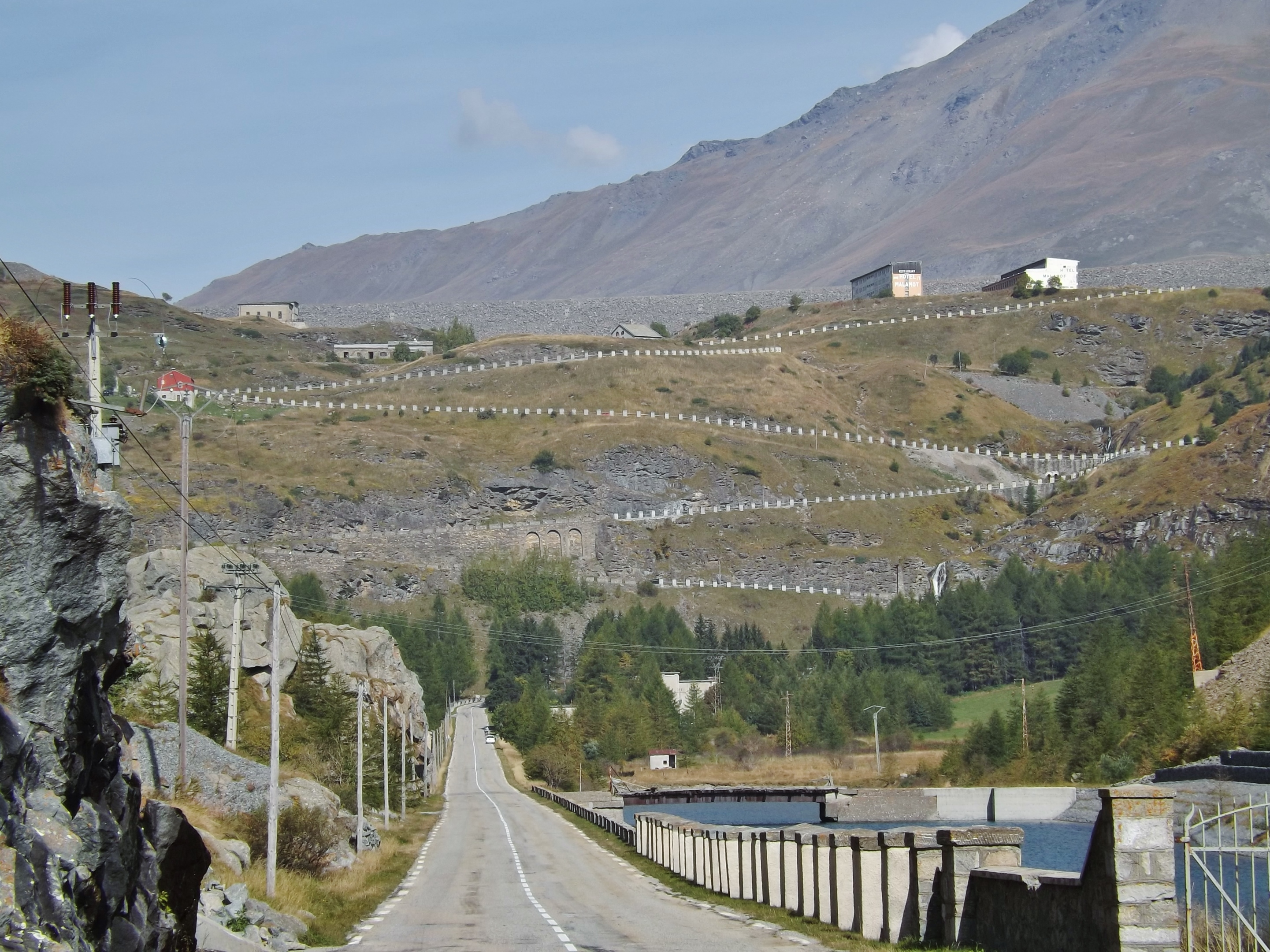 Sight of the former Route nationale 6 French road from Paris to Italy, here close to the Italian border, with visible the bends to the col du Mont-Cenis pass, in Savoie.